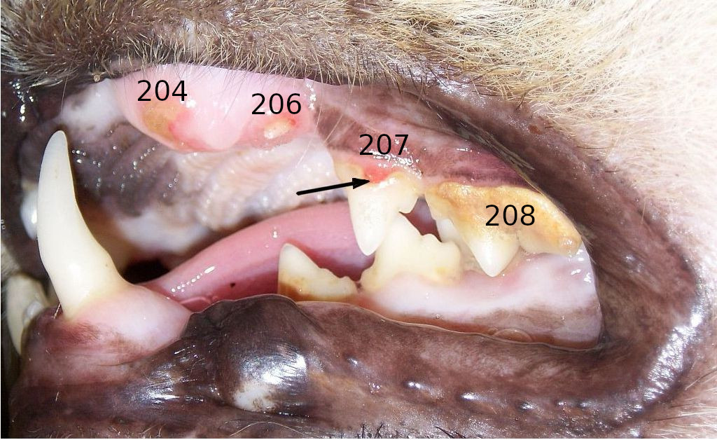 Feline odontoclastic resorptive lesion on 2nd premolar (P2); Fracturs of both P1 and C, with gingival hyperplasia; P3 with dental plaque